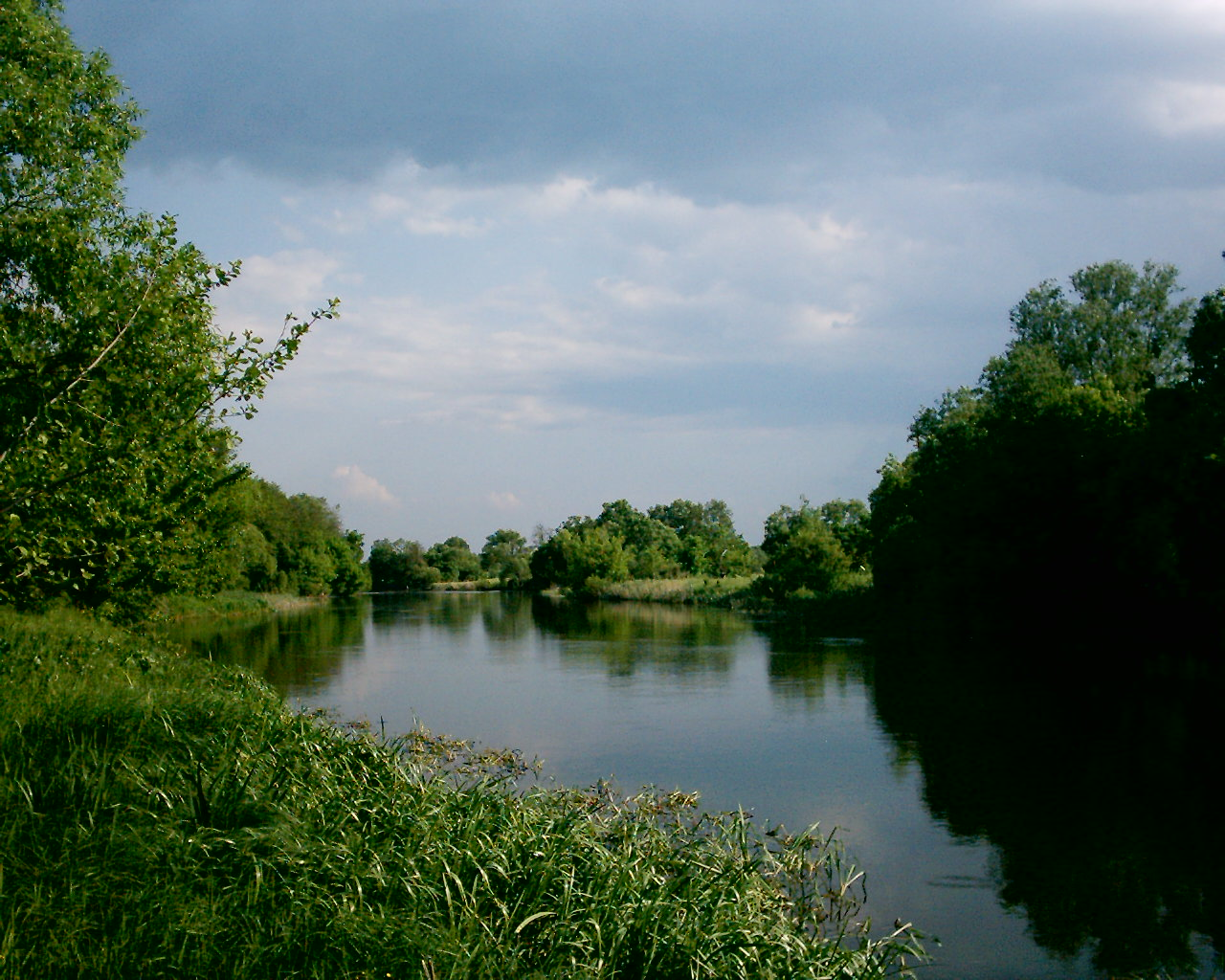 River Ros' near Sukholese village in Beloreckiy rayon, Kiyev Oblast